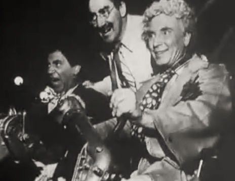 L. to R. : Chico, Groucho & Harpo Marx in A Night in Casablanca - trailer (cropped screenshot)